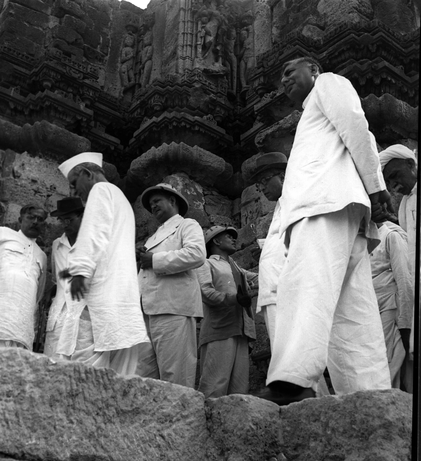 KBombay Office/July,1950,A53(a)A national shrine at Dehotsarga near Somnath where Lord Krishna had sought eternal rest is being planned. The Food and Agriculture Minister, (Government of India), Shri K.M. Munshi, who planted a tree on the sacred site in July, 1950, in connection with Van Mahotsava, is seenwith archaeologists and engineers of the Government of India, Bombay and Saurashtra, with the ruins of Somnath Temple in the background. Photo Number:-15315